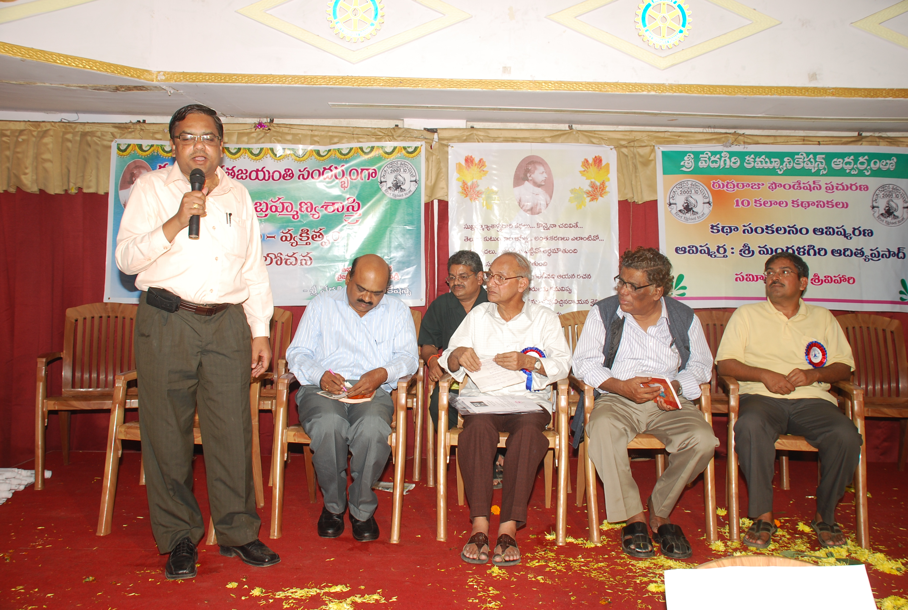 Prof Dr N N Murthy, Crusader of Paryavaran Kavitodyamam delivering a special lecture on importance of Harita Kata at Seminar during Telugu Short Story Centenary Celebrations at Rajahmundry (India) on 24 January 2010